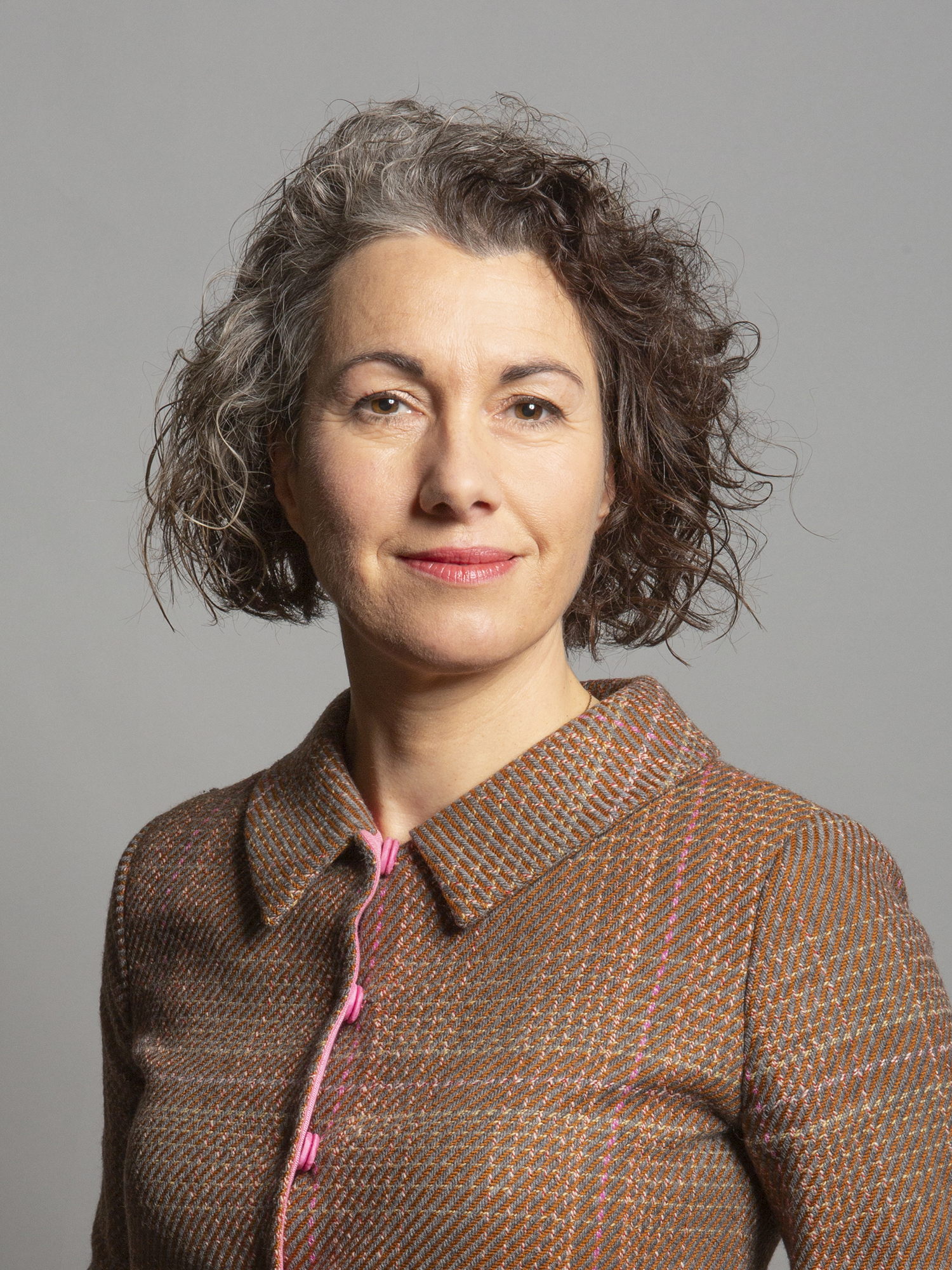 Official portrait of Sarah Champion MP 3×4 portrait of Sarah Champion